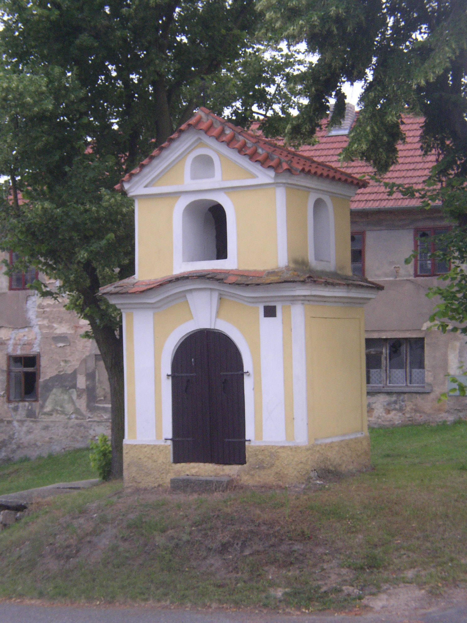 Třebichovice municipality), Kladno District, Czech Republic. Chapel in centre of the village, a view from the northeast.